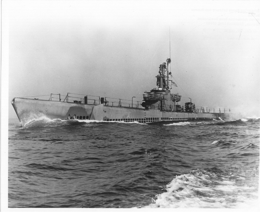 The submarine USS Piper (SS-409), 1949, running on the surface in an unknown location.